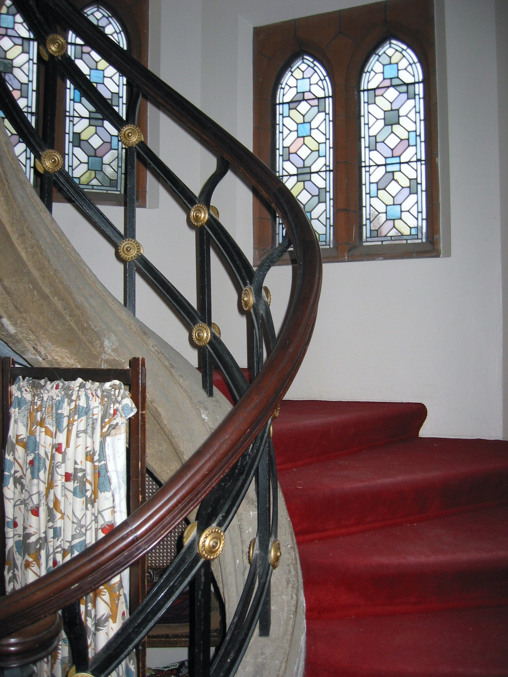 Girton staircase